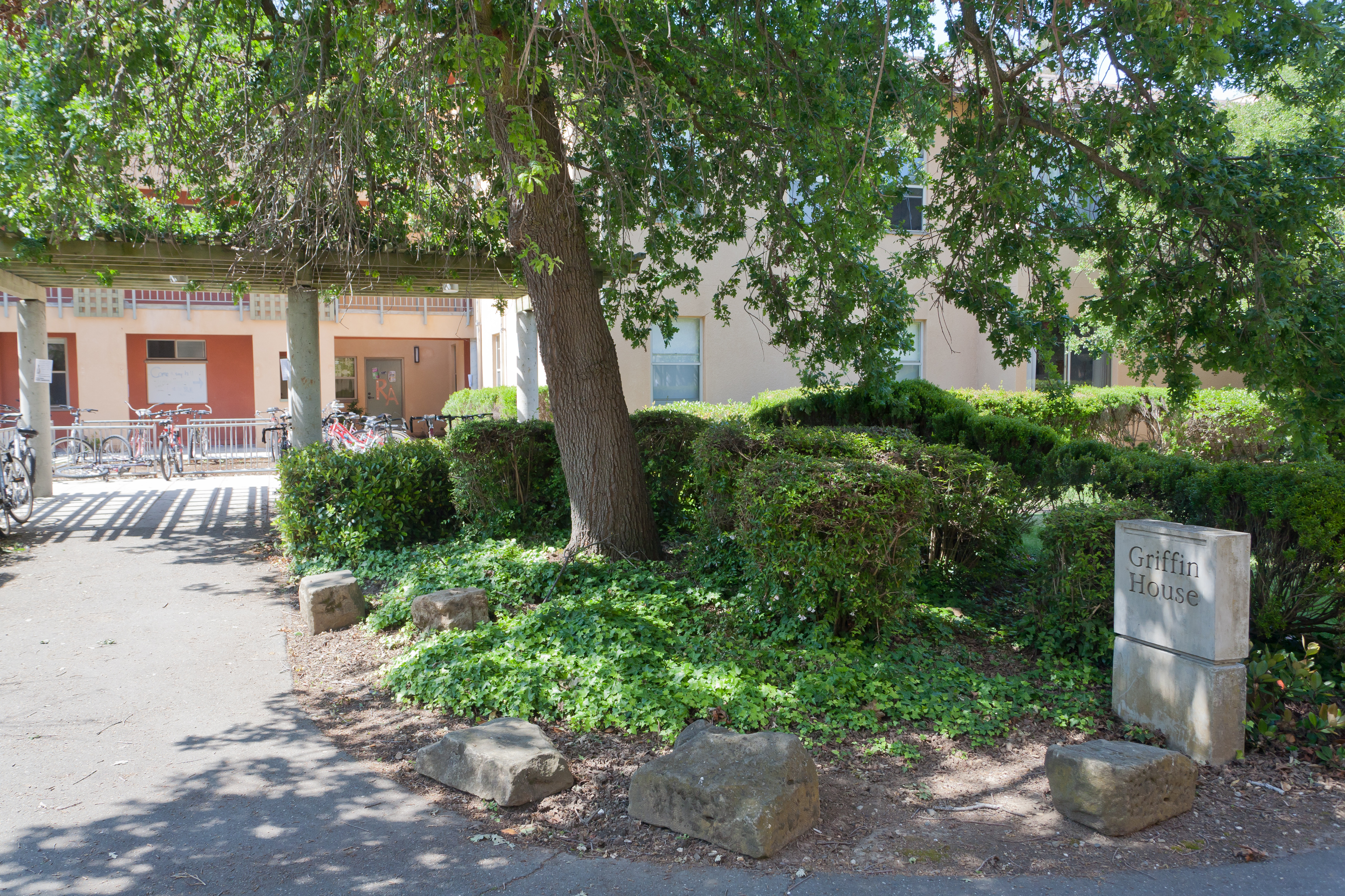 Griffin House in Stanford University, Stanford, California.